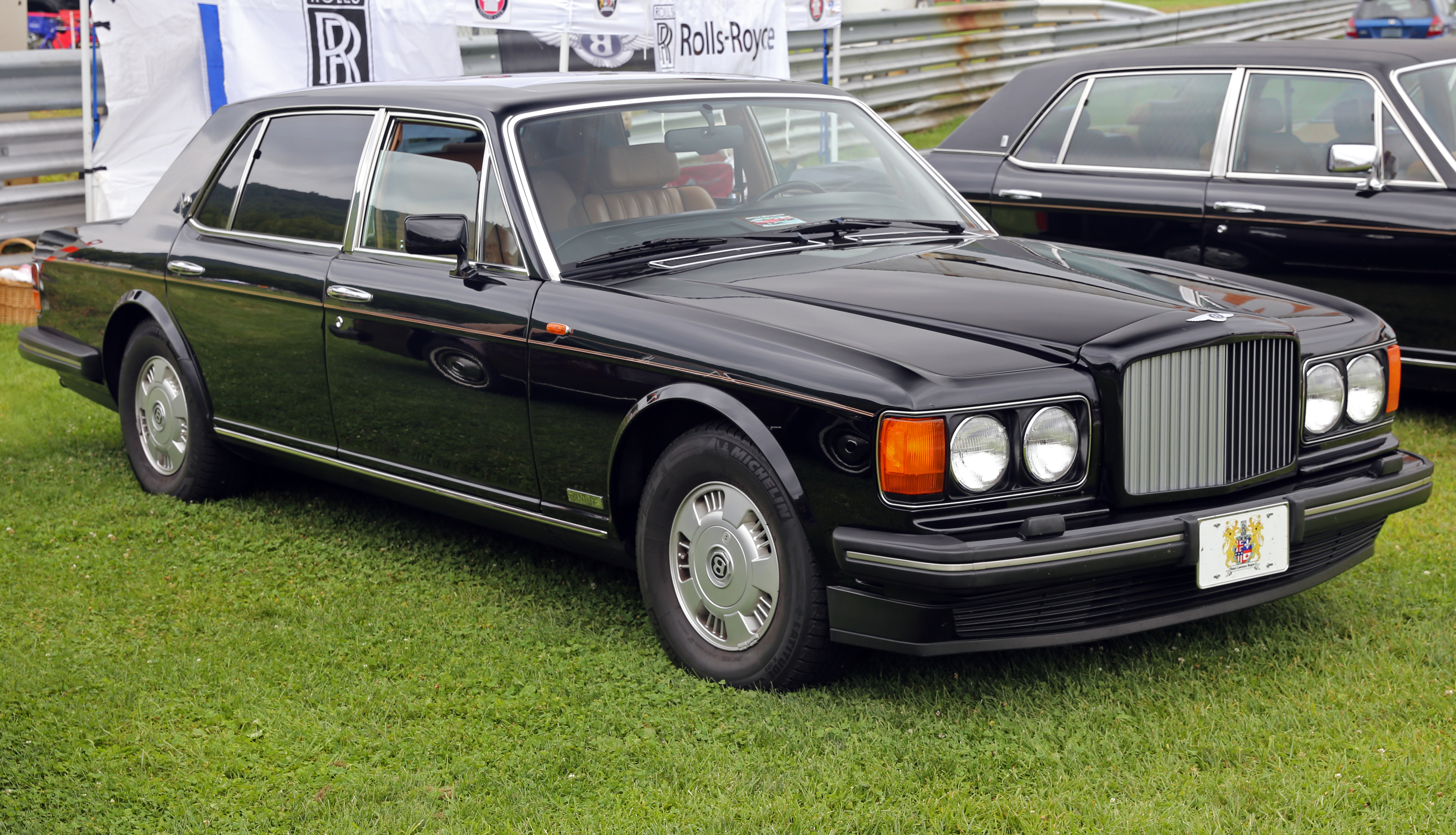 A 1995 Bentley Brooklands LWB at the 2014 Lime Rock Concours d'Élegance.